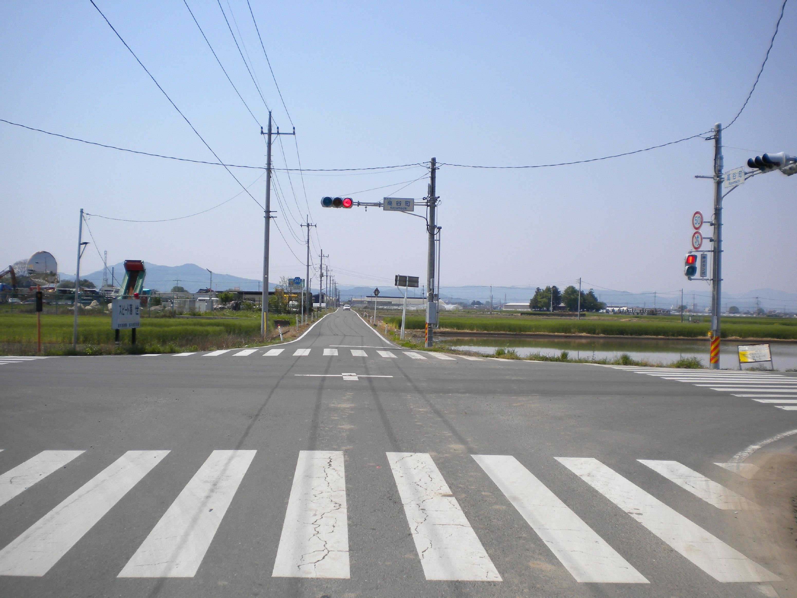 Tochigi prefectural road No.243 on Tochigi city